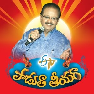 Poster shows Paadutha Theeyaga title with the host Mr.S.P.Bala Subramanyam garu